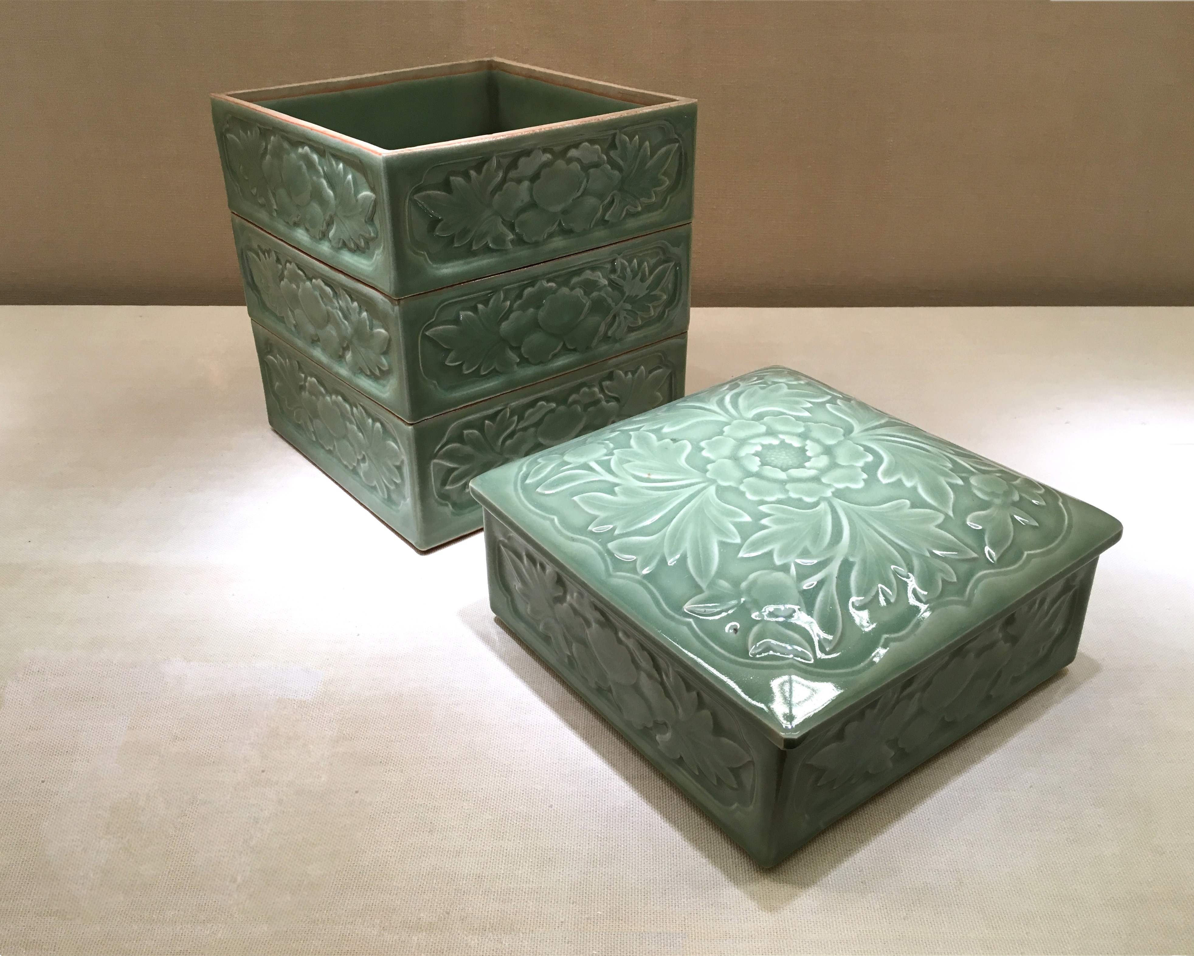 Celadon tired boxes, peony design. Sanda ware. Edo period, 19th century. Height: 37.2 cm Diameter: 22.6/22.5 cm